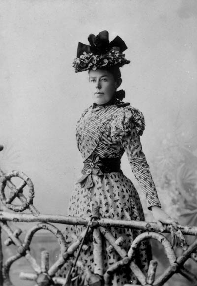 Maria Tschetschulin, the first Finnish woman to take the matriculation exam.